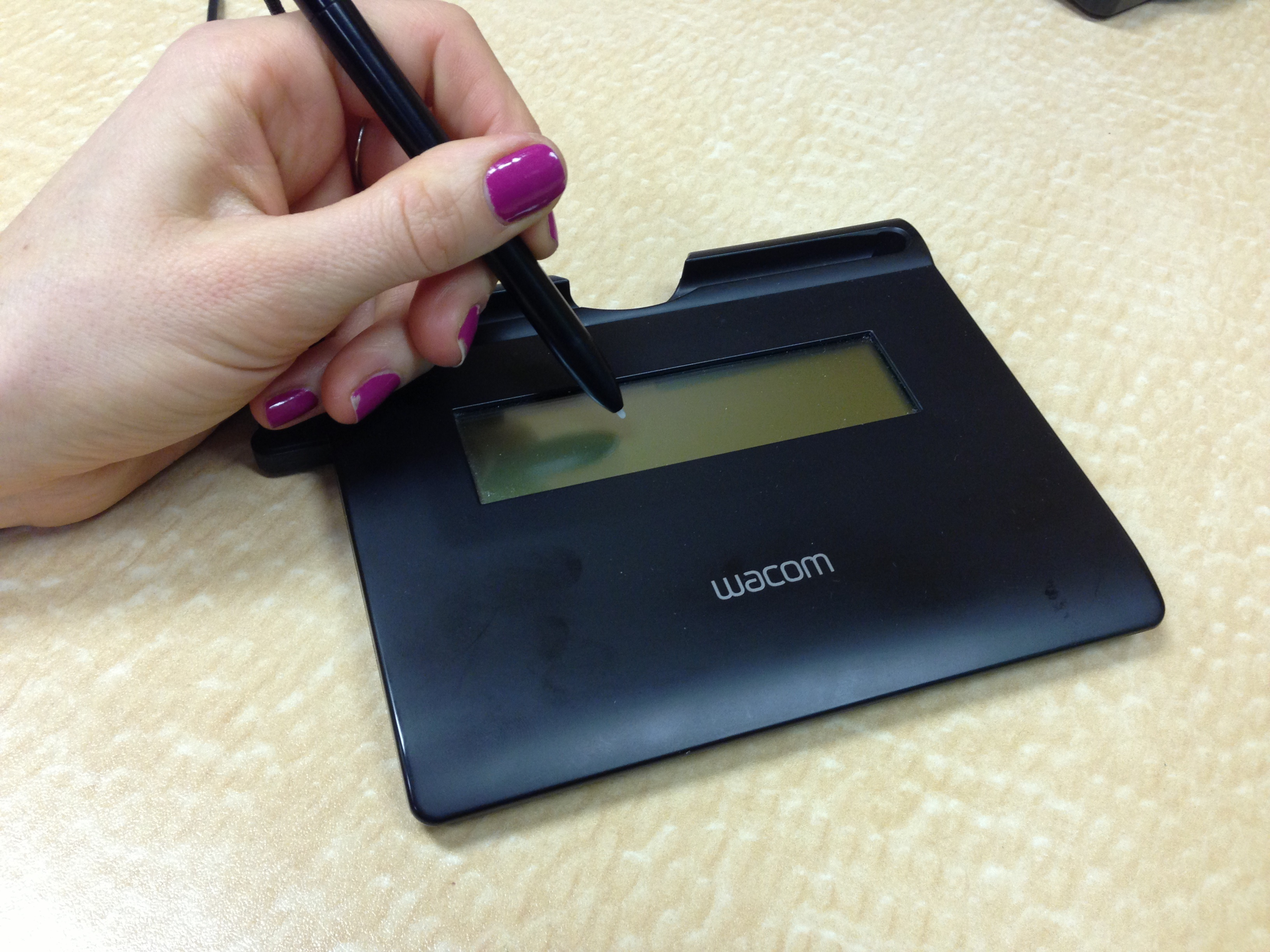 Wacom STU-300 LCD Signature Tablet - Mar 2013